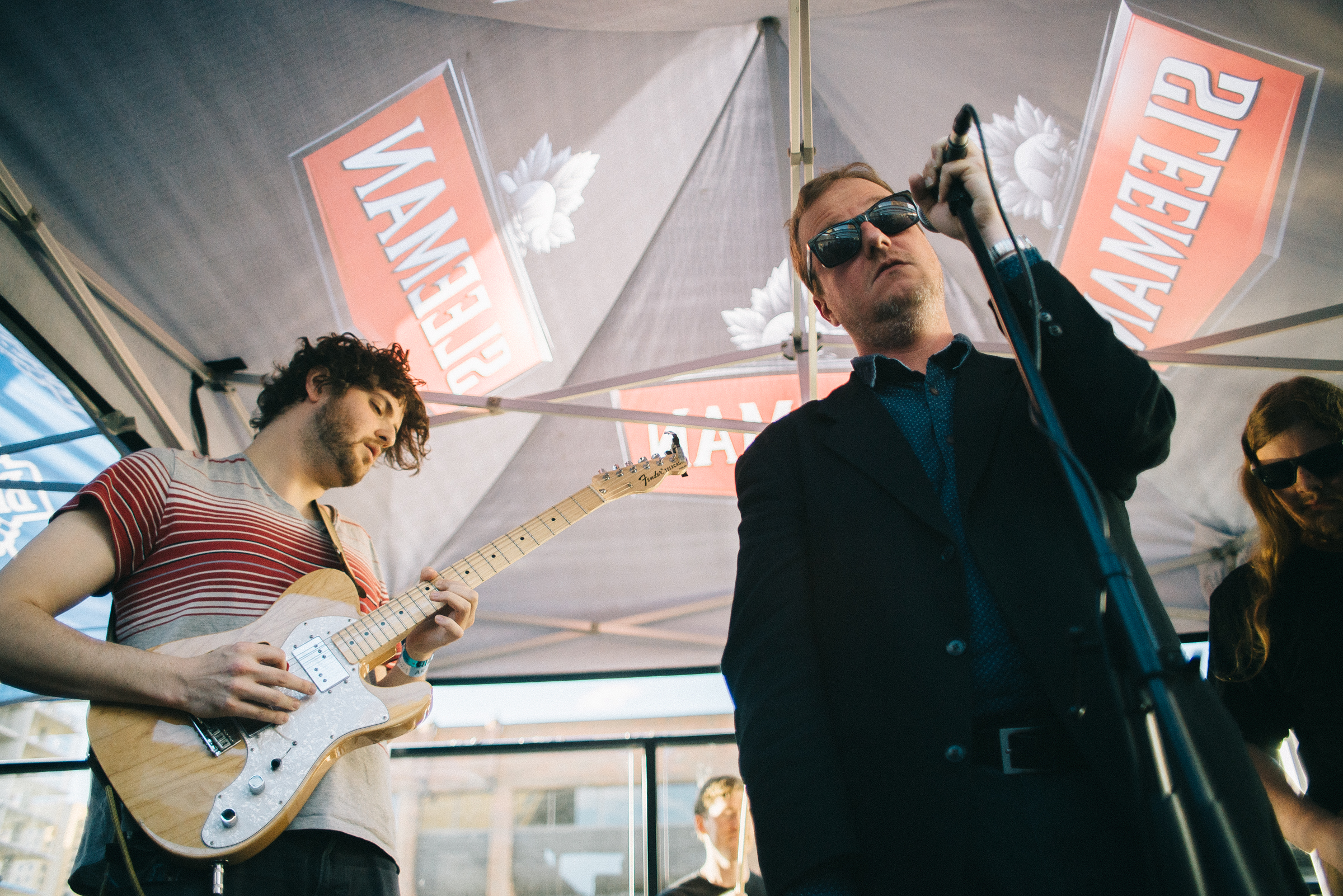 Protomartyr